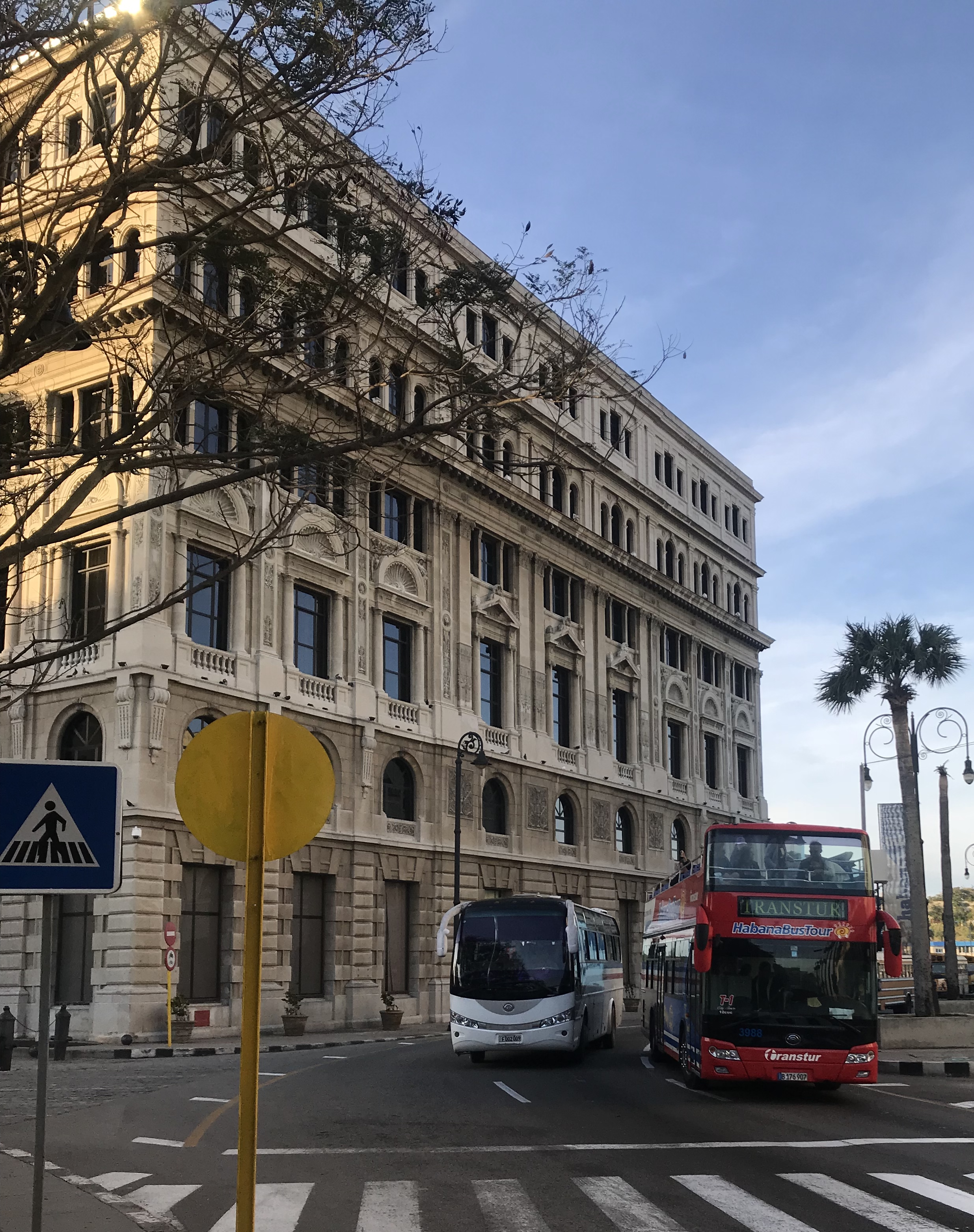 Former Stock Exchange building in Havana, Cuba.